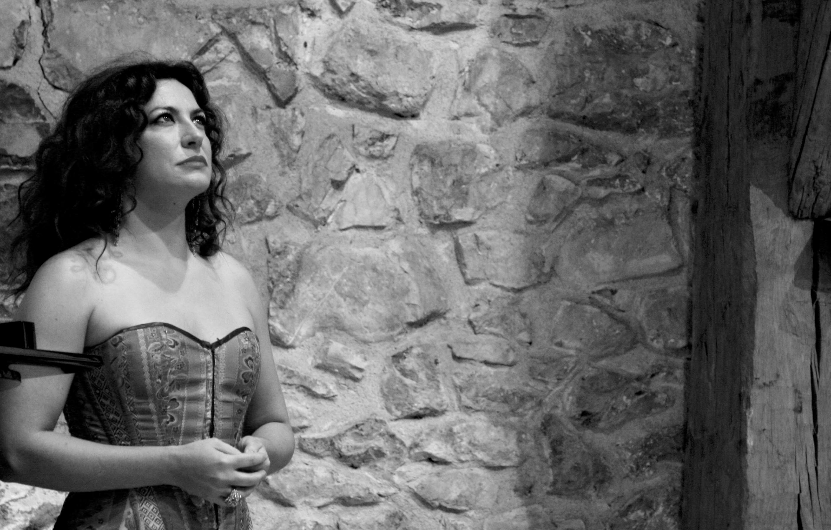 Pilar Jurado during a conzert in the Chillida Leku Museum in San Sebastián.